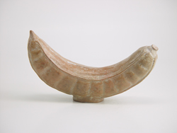 Moche Pacae or guava. 200 A.D. Larco Museum Collection. Lima, Peru. Free Use.